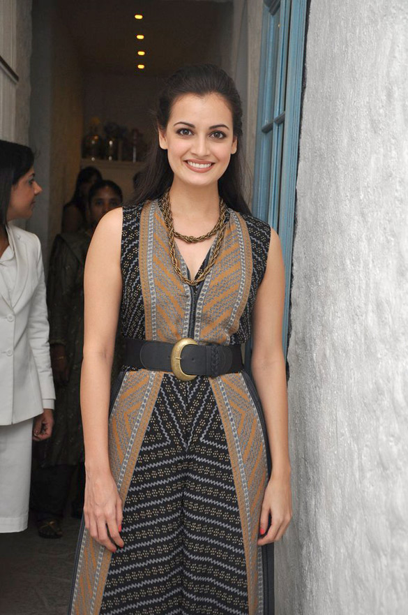 Dia Mirza grace Kallista Spa opening